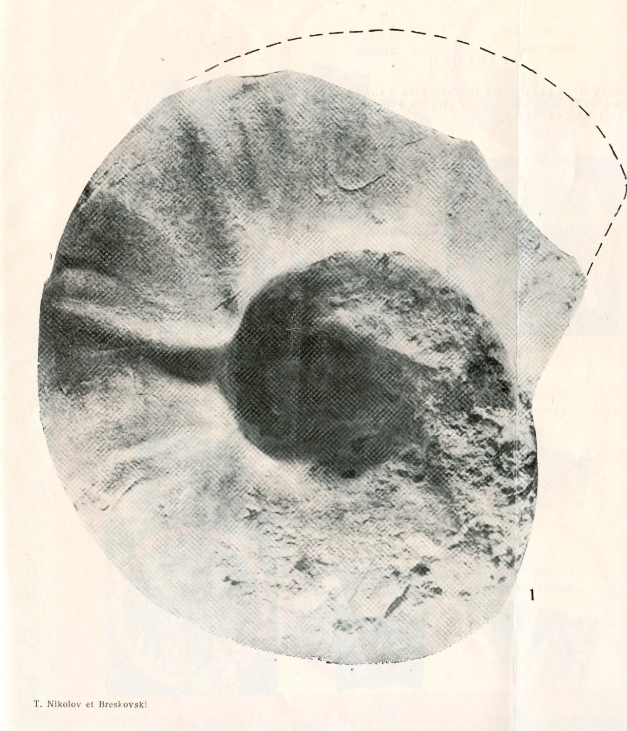 Abrytasites neumayri Haug, 1889